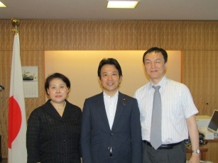 Jun Ishikawa, Chair of the Commission on Policy for Persons with Disabilities, Cabinet Office, and Mikiko Ōtani, Partner Lawyer of the Toranomon Law and Economic Offices, met Masakazu Hamachi, Parliamentary Secretary for Foreign Affairs, on July 22, 2016.